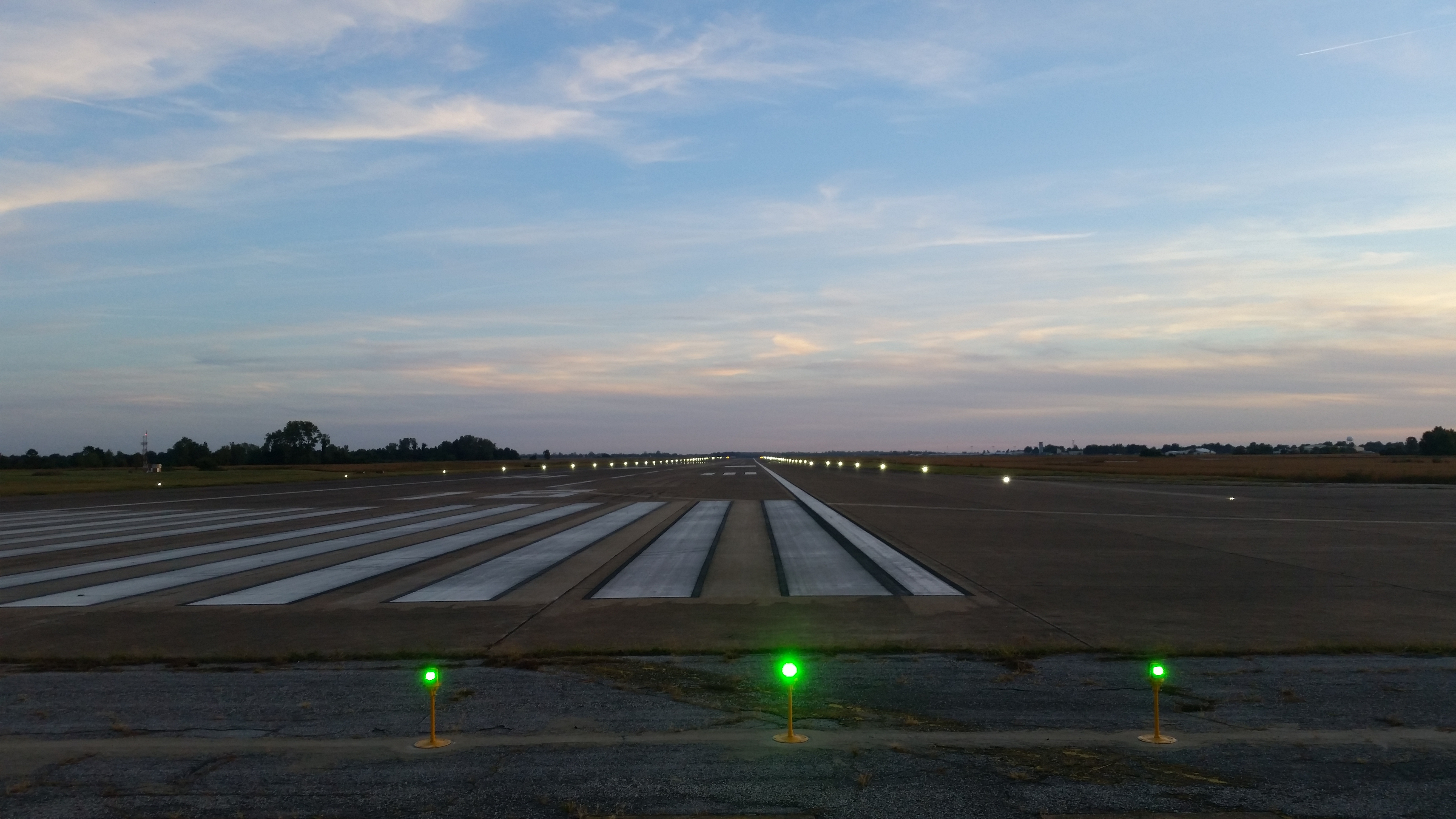 On Thursday afternoon, October 19, 2017, the airport turned on their new LED High Intensity Runway Lights. These were the first LED High Intensity Runway Lights installed in Arkansas.